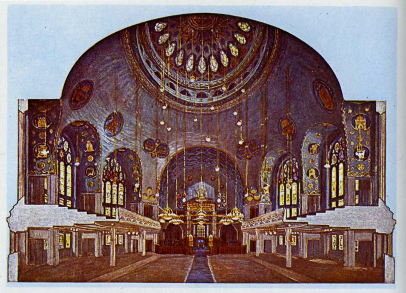 Old Synagogue, Essen -- interior view toward east